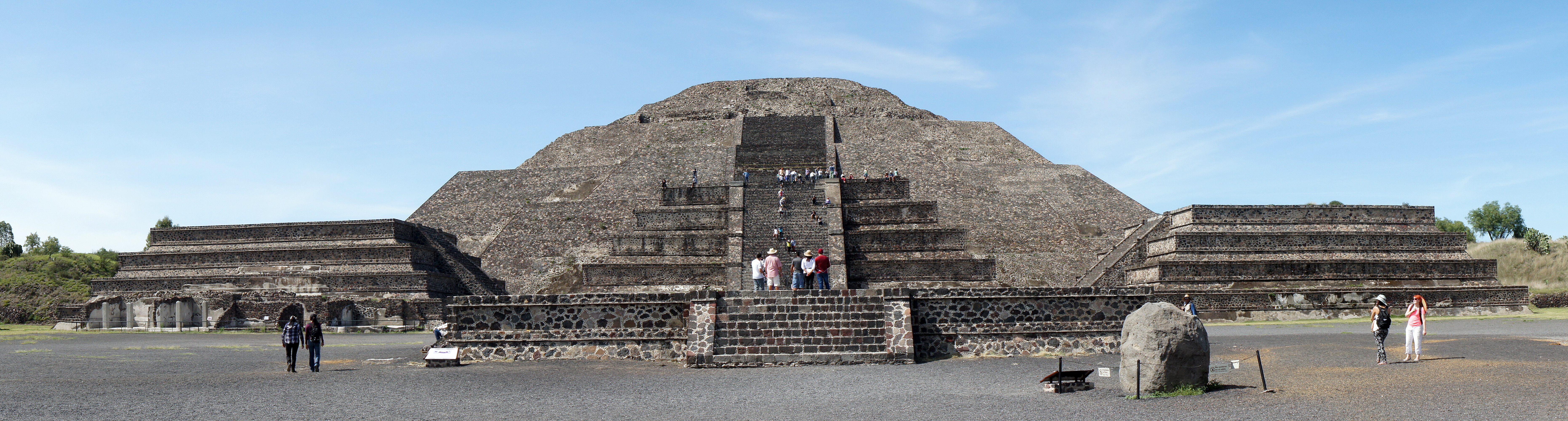 Panoramic view of the Pyramid of the Moon, Teotihuacan archaeological site, Mexico Nāhuatl: Mētztli tlamanacalli.